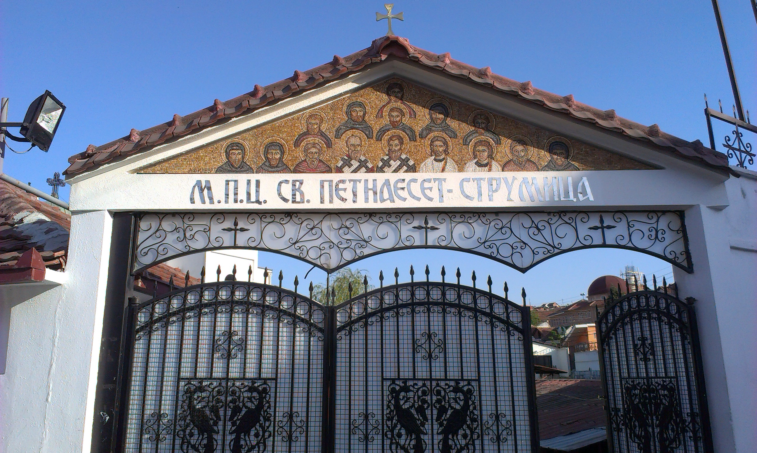 Sts. 15 Martyrs of Tiveriopolis